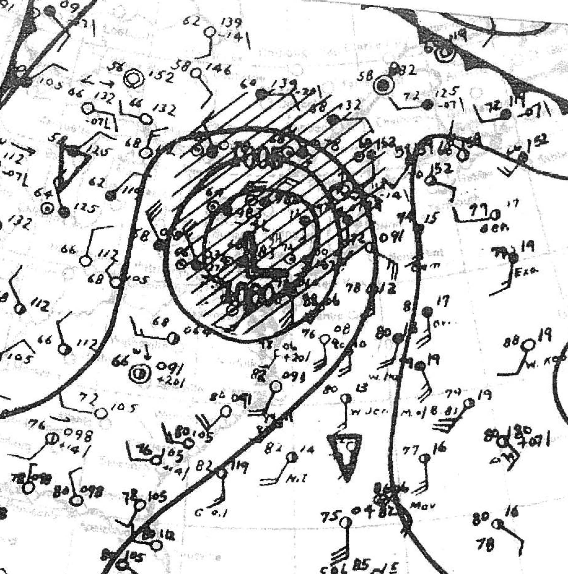 Surface weather analysis of the 1933 Chesapeake-Potomac hurricane on August 23, 1933